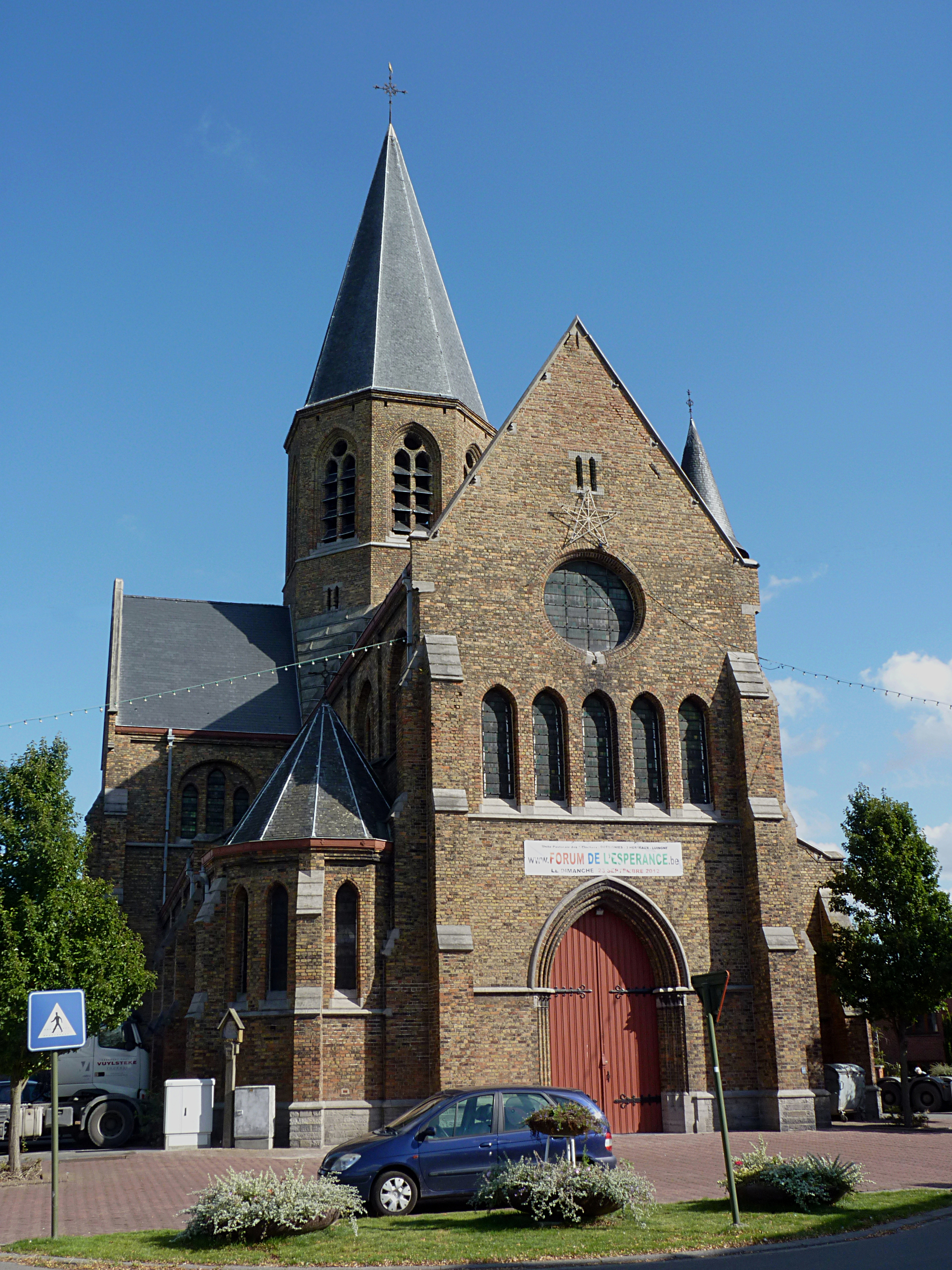 Church Saint John the Baptist in Herseaux (quarter les ballons), Belgium.